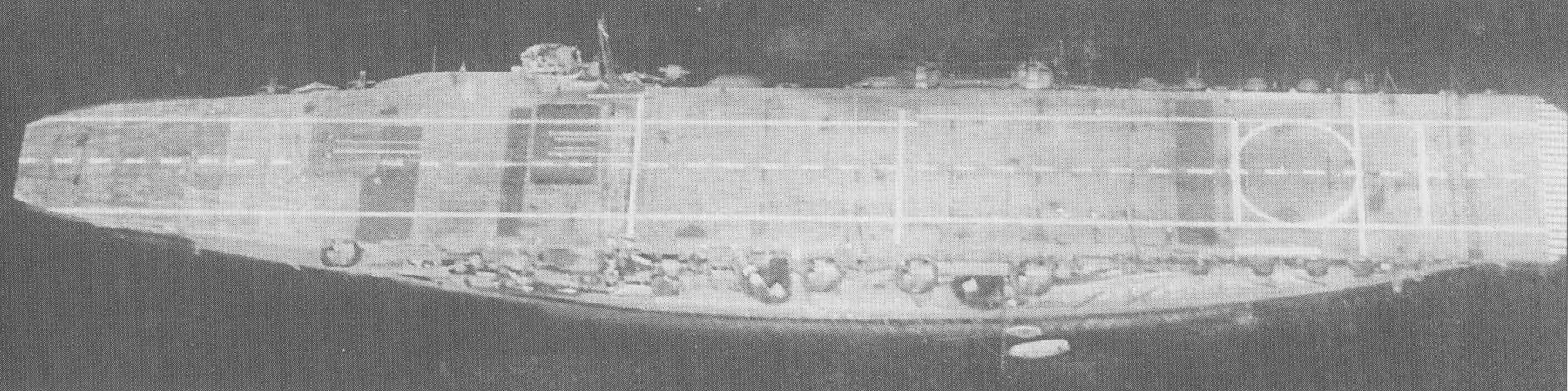 Imperial Japanese Navy aircraft carrier Kaga after reconstruction in 1935.